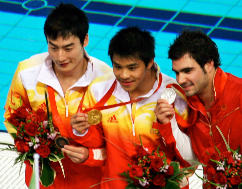 Diving at the 2008 Summer Olympics – Men's 3 metre springboard